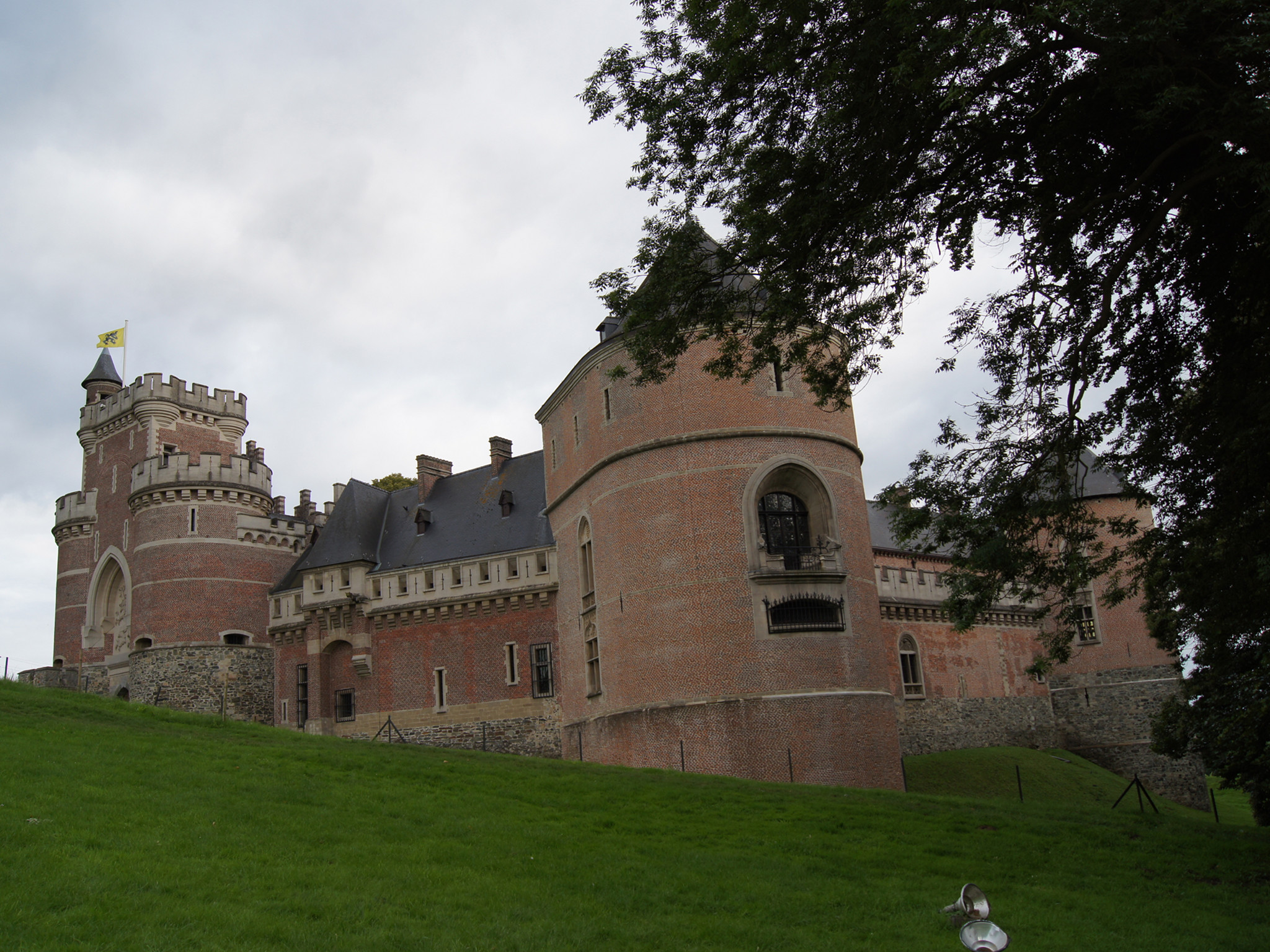 Gaasbeek castle